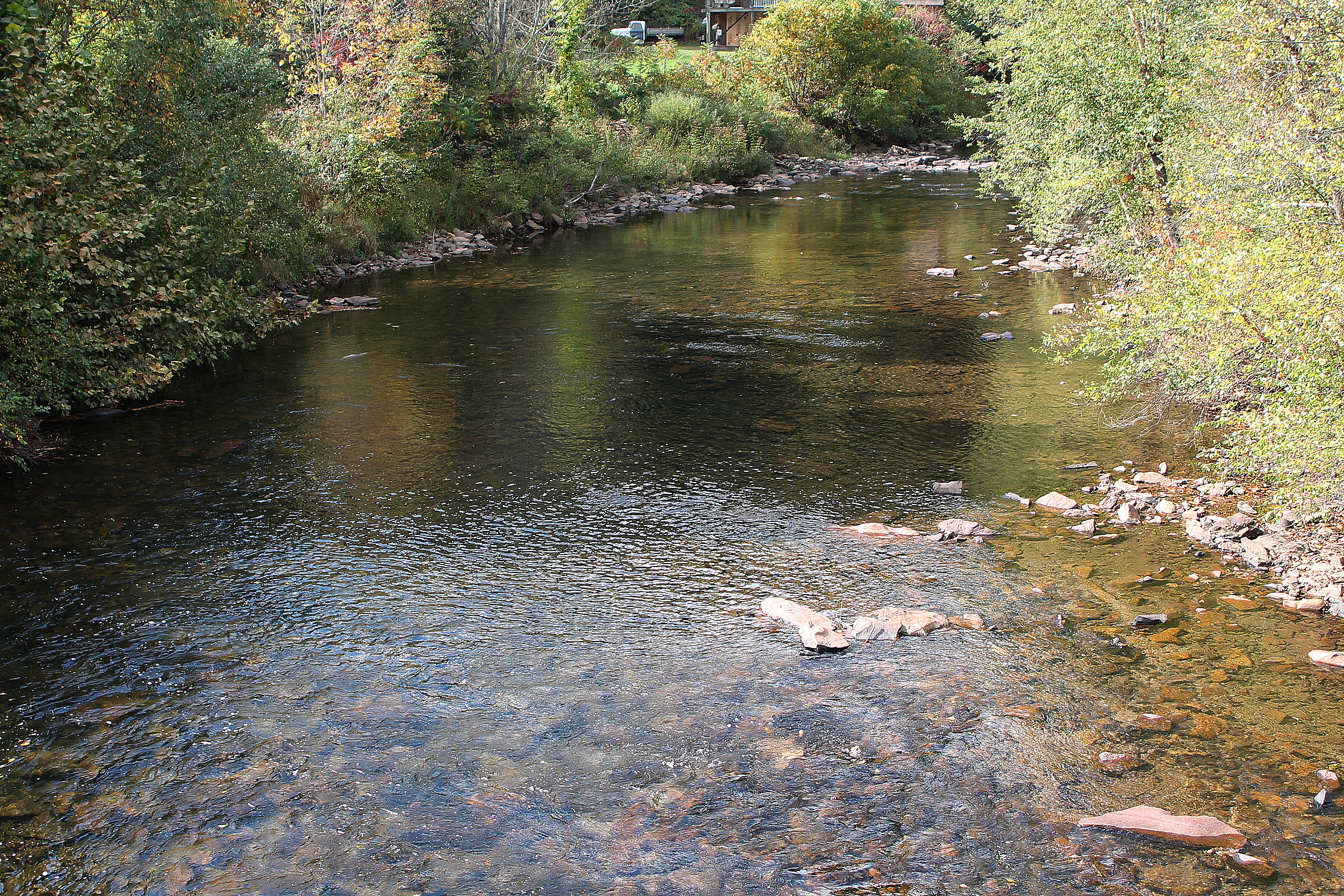 Catawissa Creek looking downstream from Fisher Run Road in Main Township, Columbia County, Pennsylvania